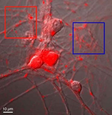 Neurons from the nucleus Accumbens stained (red) for D2 dopamine receptors. Plated medium spiny neurons.